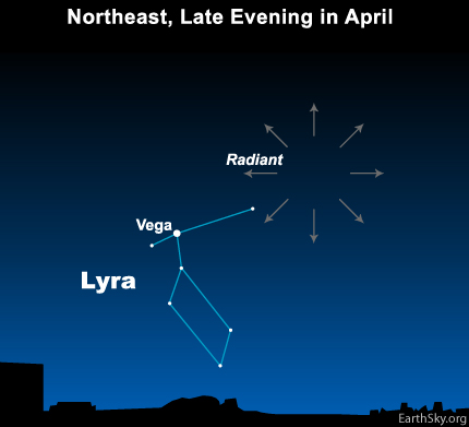 The radiant point of the Lyrid meteor shower is near the star Alpha Lyrae (proper name Vega), the brightest star in the constellation Lyra the Harp. At the time of the Lyrids' peak each year (around April 22), you will find this radiant point in the northeast in late evening and higher in the sky as night passes. Although the meteors appear to radiate from a point in the sky near the bright star Vega, they are not truly associated with this distant star. Instead, meteors in annual showers like the Lyrids originate as relatively nearby bits of debris left behind in the orbits of comets. The comet associated with the Lyrids is periodic Comet C/1861 G1 Thatcher.